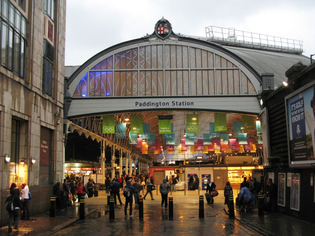 Looking down the slope into Paddington station, London. Being 2012, there are lots of signs promoting the London Olympics.